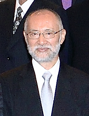 Tom Vilsack, Secretary of Agriculture, Caroline Kennedy, Ambassador to Japan, and the member of the U.S. - Japan Agricultural Trade Hall of Fame posed for the photograph at the Residence of the Ambassador in Tokyo on November 20, 2015.